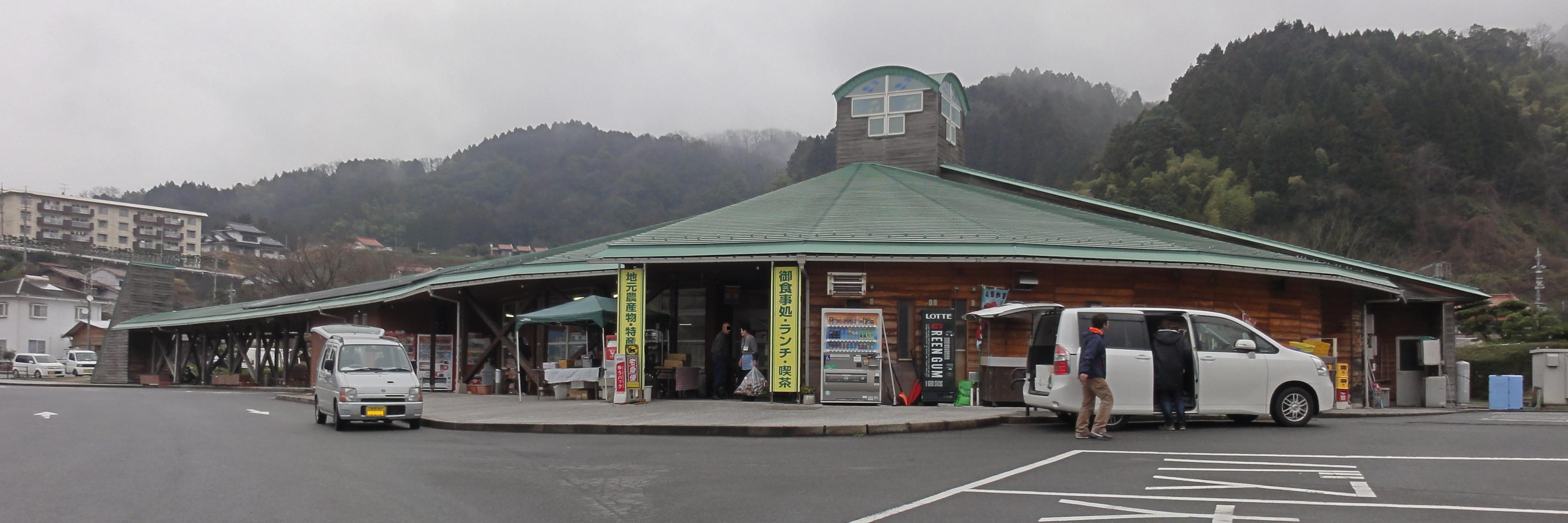 Road to station Information center Kawamoto,Shimane prefecture,Japan